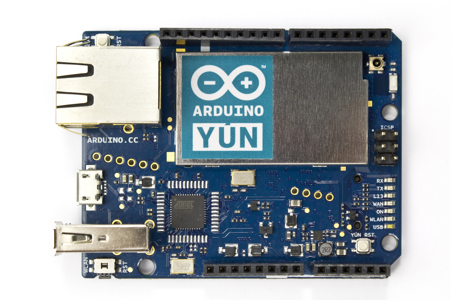 The Arduino Yún is a microcontroller board based on the ATmega32u4 and the Atheros AR9331. The Atheros processor supports a Linux distribution based on OpenWrt named OpenWrt-Yun.